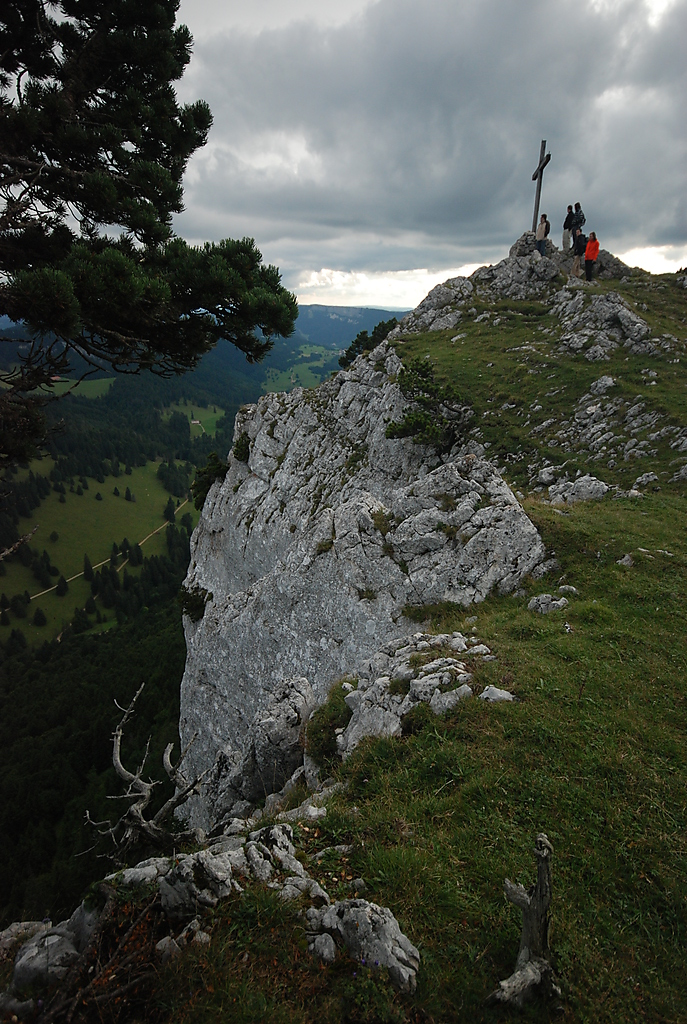 Mountain above Baulmes, Vaud, Switzerland